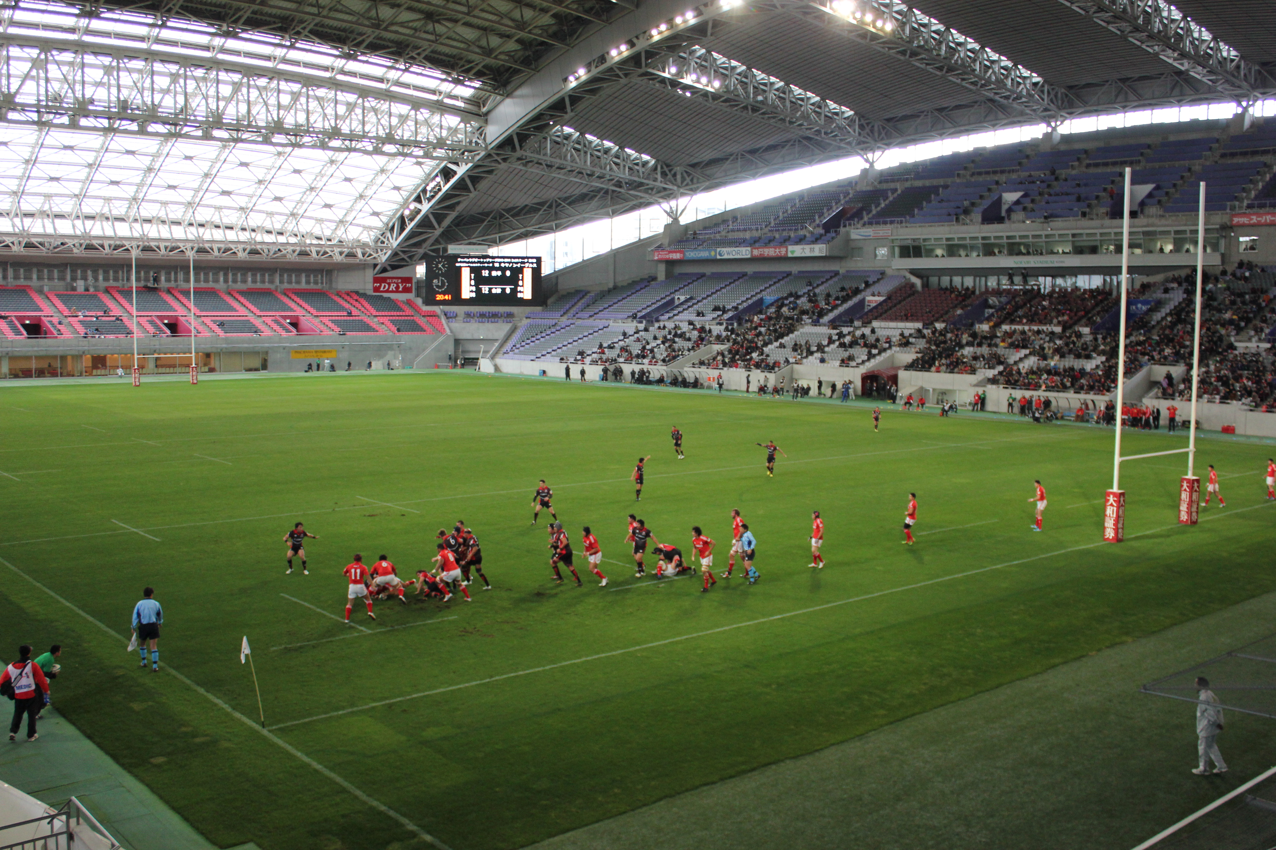 Kobe Wing Stadium